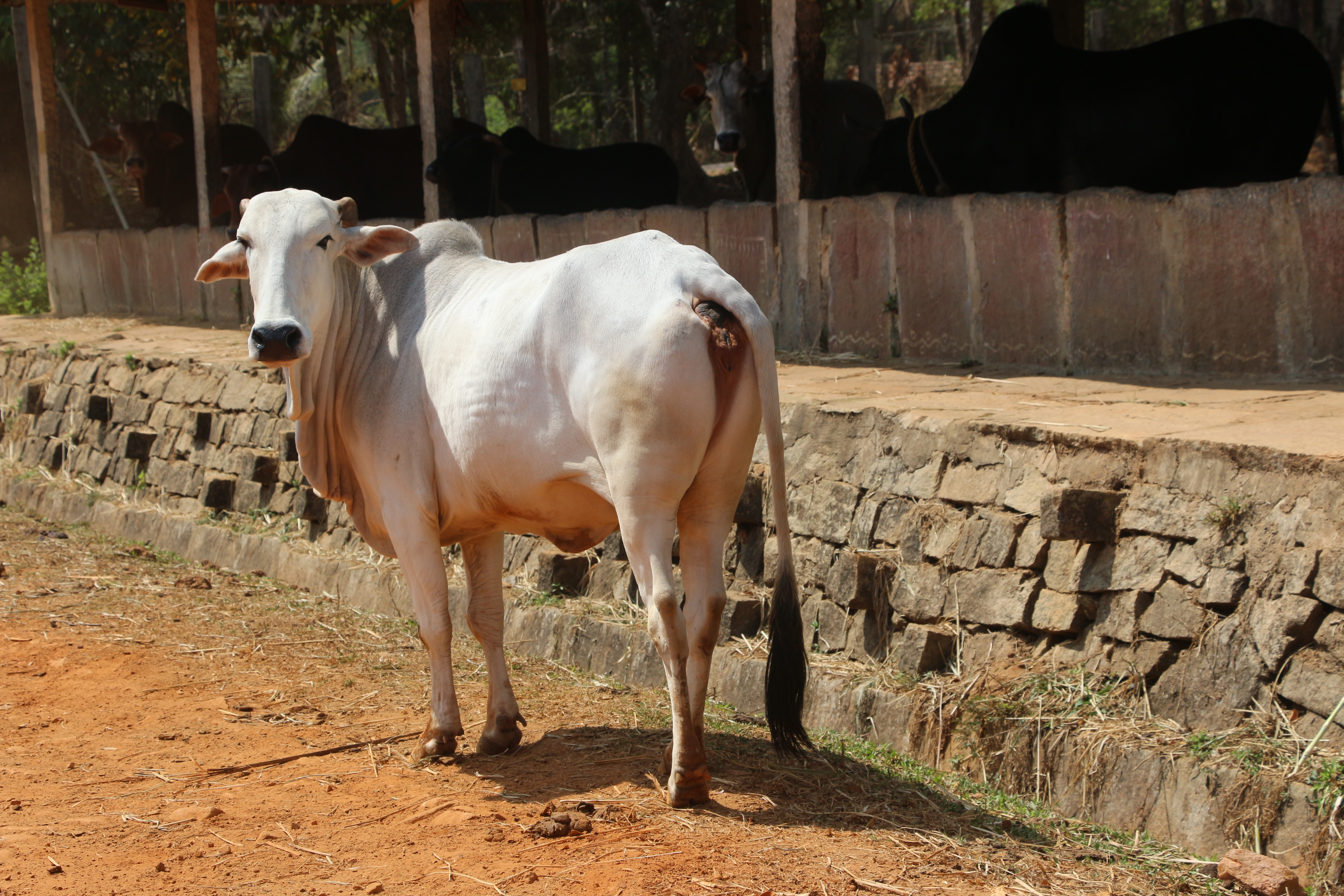 Indian cow breed Gaolao ಕನ್ನಡ: ಭಾರತೀಯ ಗೋತಳಿ ಗೌಳವ್